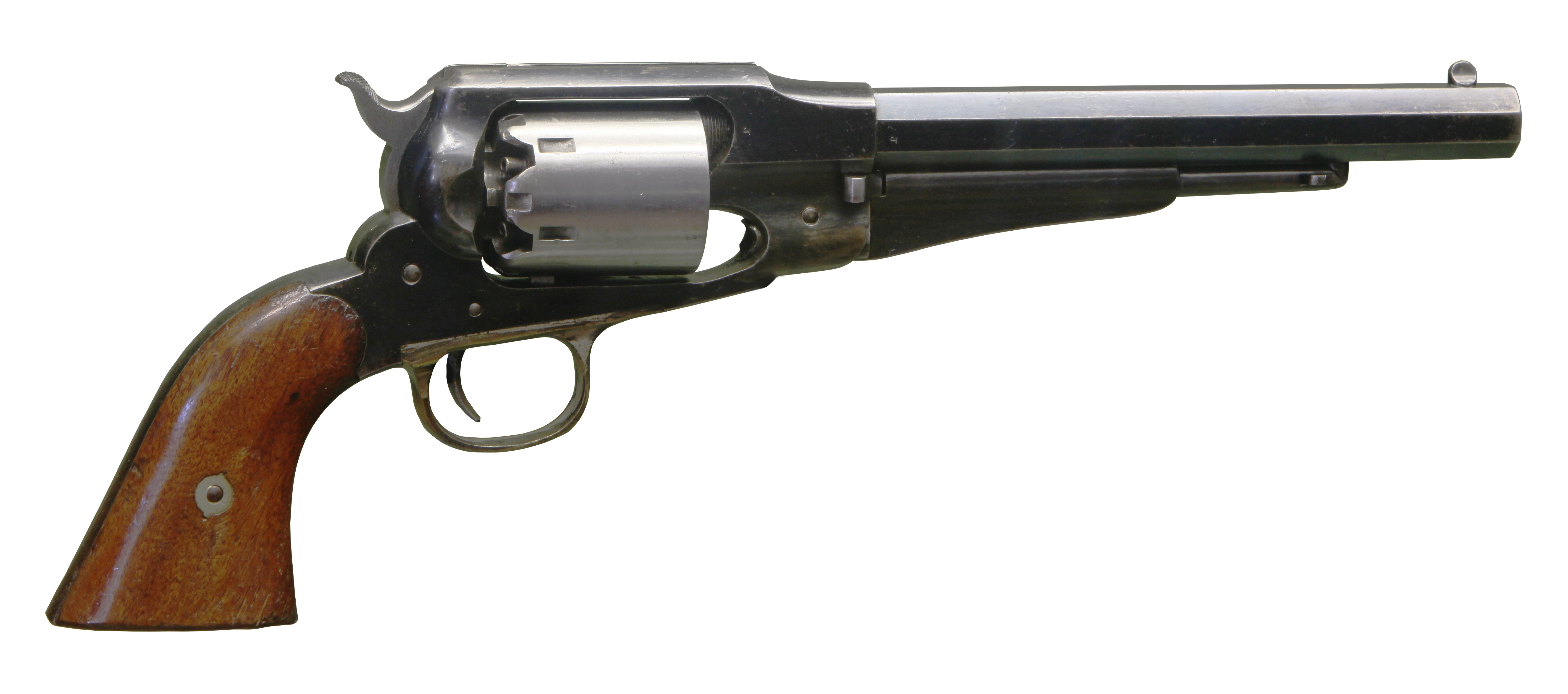 Remington Model 1858. On display at Morges military museum, accession number 1003922.